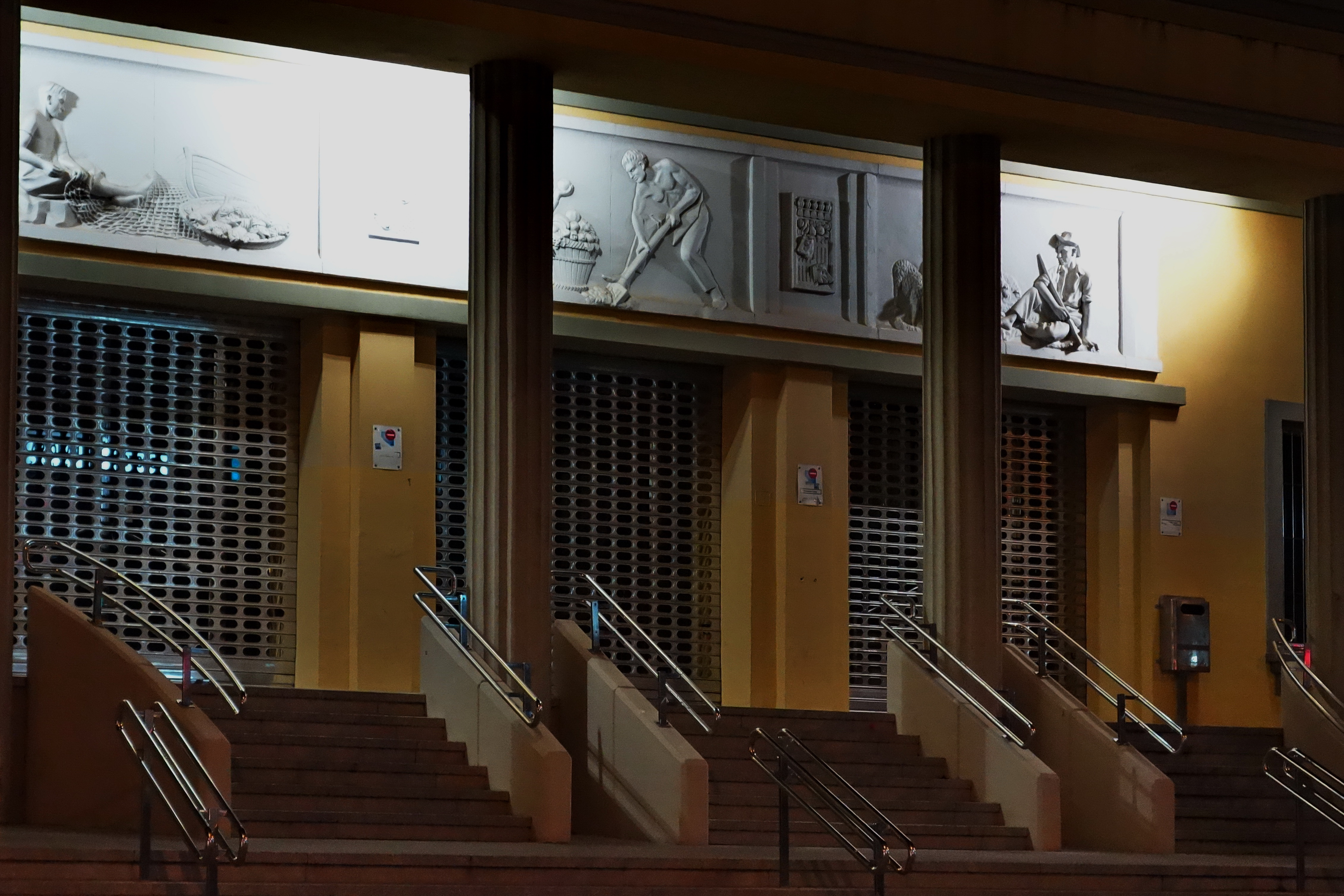 Portal of the Santa Florentina Market, located since 1953 in Juan Fernández Street of the Spanish city of Cartagena (Region of Murcia).